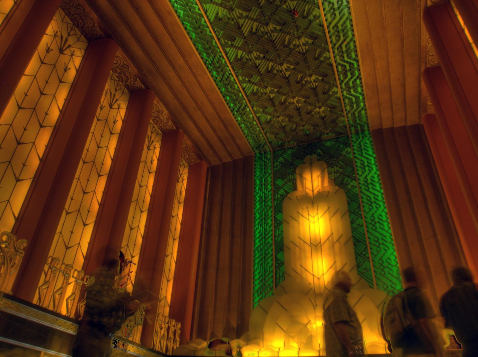 Paramount Theatre, Broadway, Oakland; interior view of lobby; THSA Conclave 2008